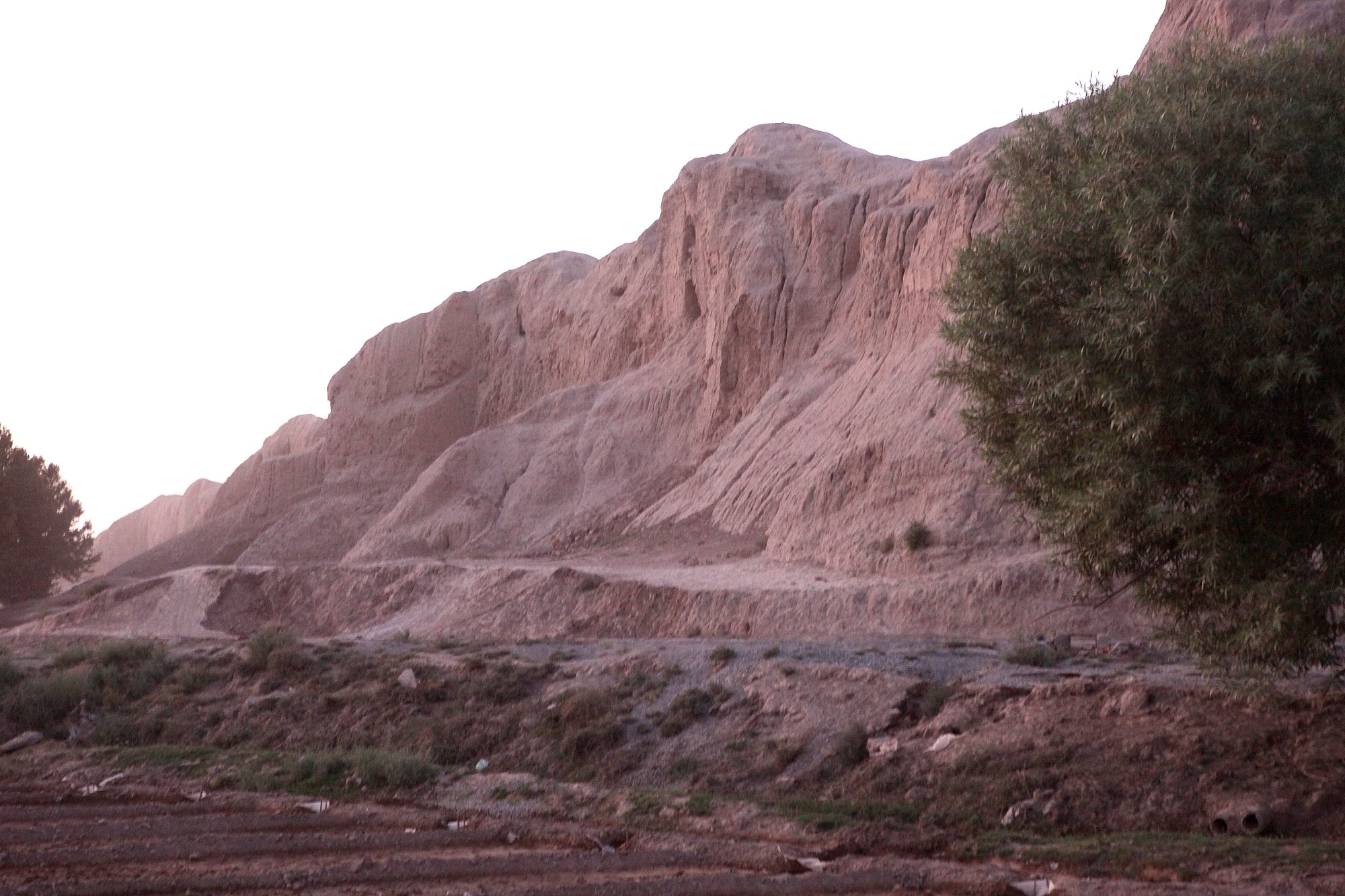 Iraj Citadel near Varamin,Iran.